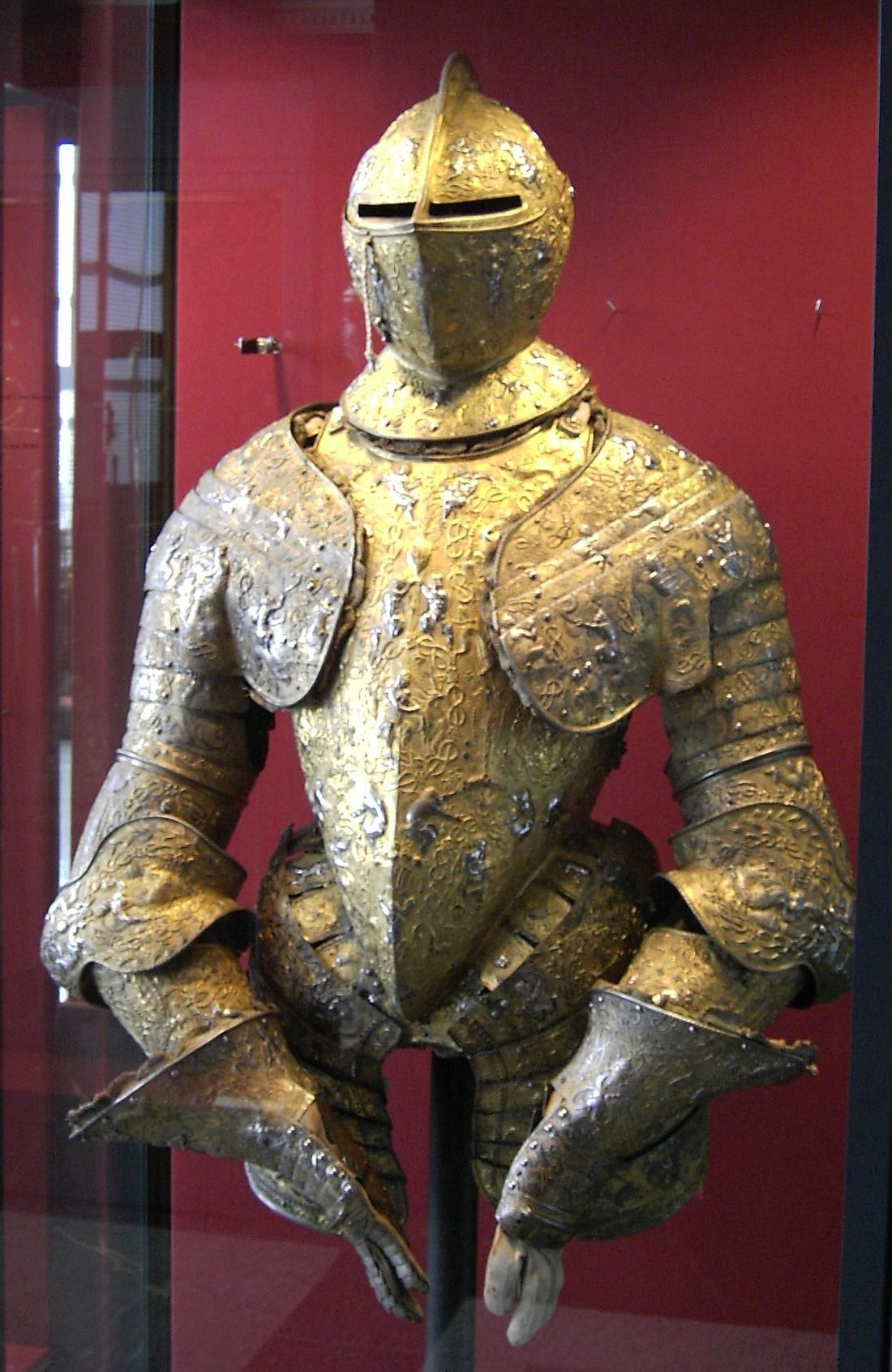 Dresdner Zwinger, 16th or 17th century armour